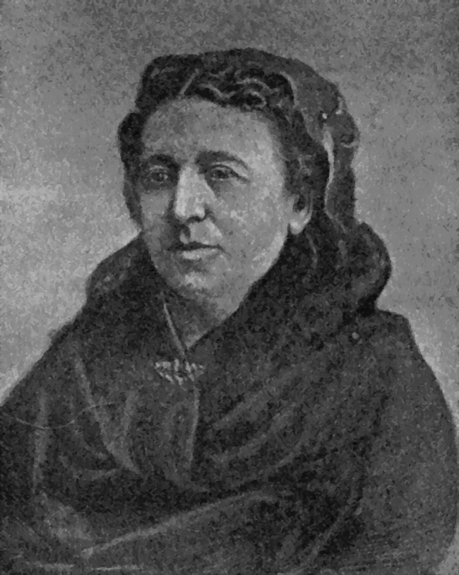 Justine Eléonore Rufflin (*2. July 1832), daughter of a plumber who worked as a doorman. Was married by Prince Pierre Bonaparte to legitimize their first two children in 1853. Mother of ten; Roland Bonaparte the geographer was 4th son.